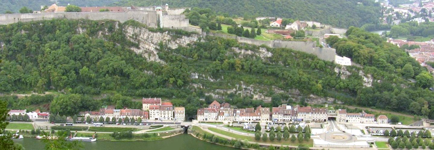 View of the area of Rivotte and of the citadelle of Besançon (from the hill of Bregille), located near the old center of Besançon (Doubs, France)